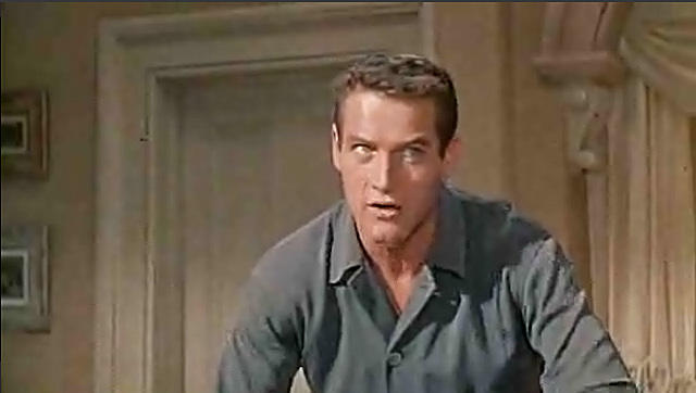 Screenshot of Paul Newman from the trailer for the film Cat on a Hot Tin Roof (film)